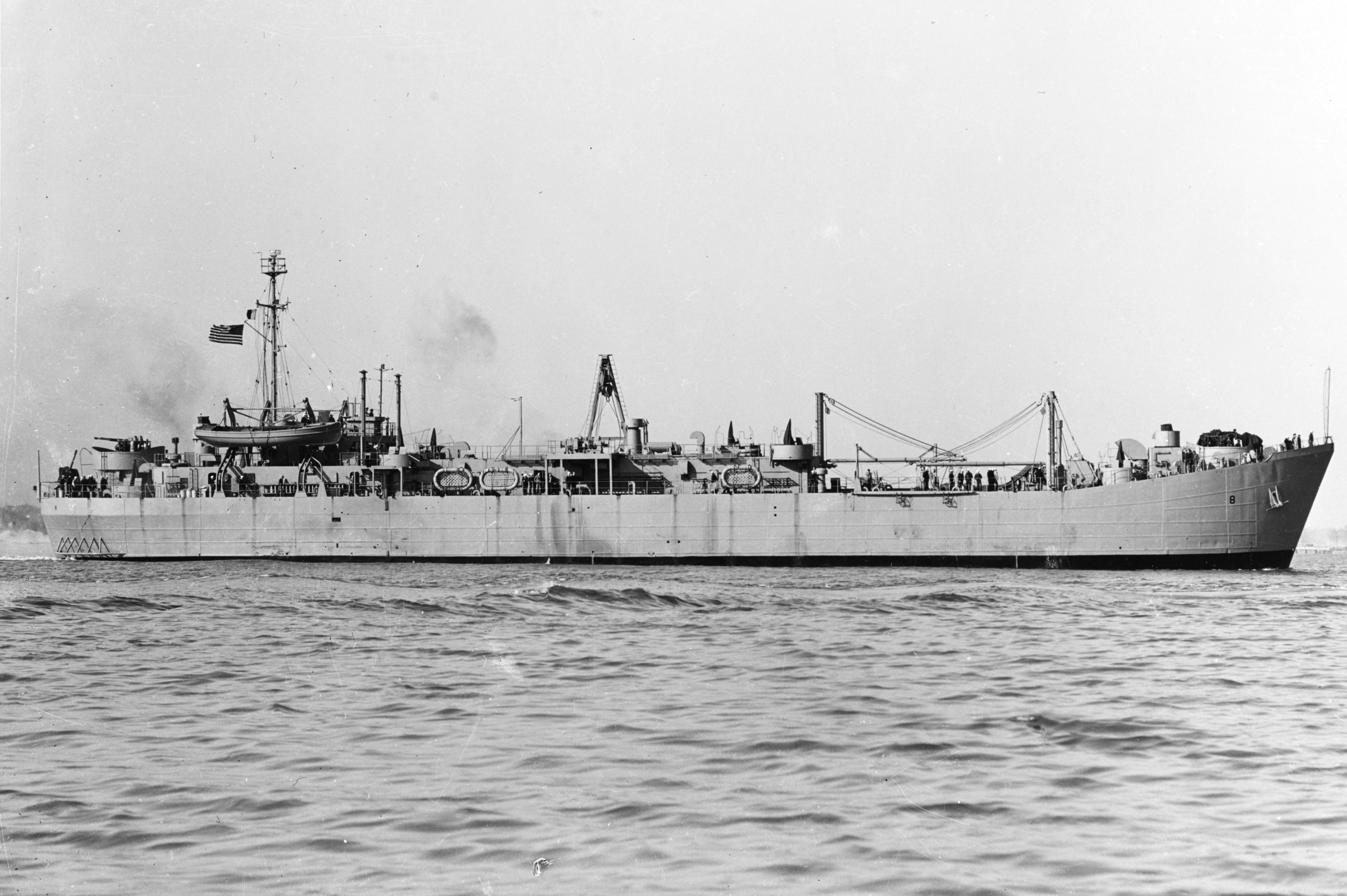 USS Egeria (ARL-8) underway near Baltimore, MD., circa April 1944 after completion of conversion. Note the two short kingposts forward widely separated by empty deck space.